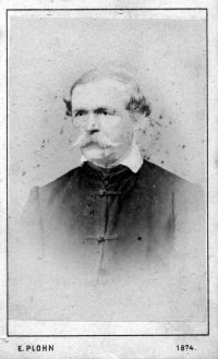 András Szametz